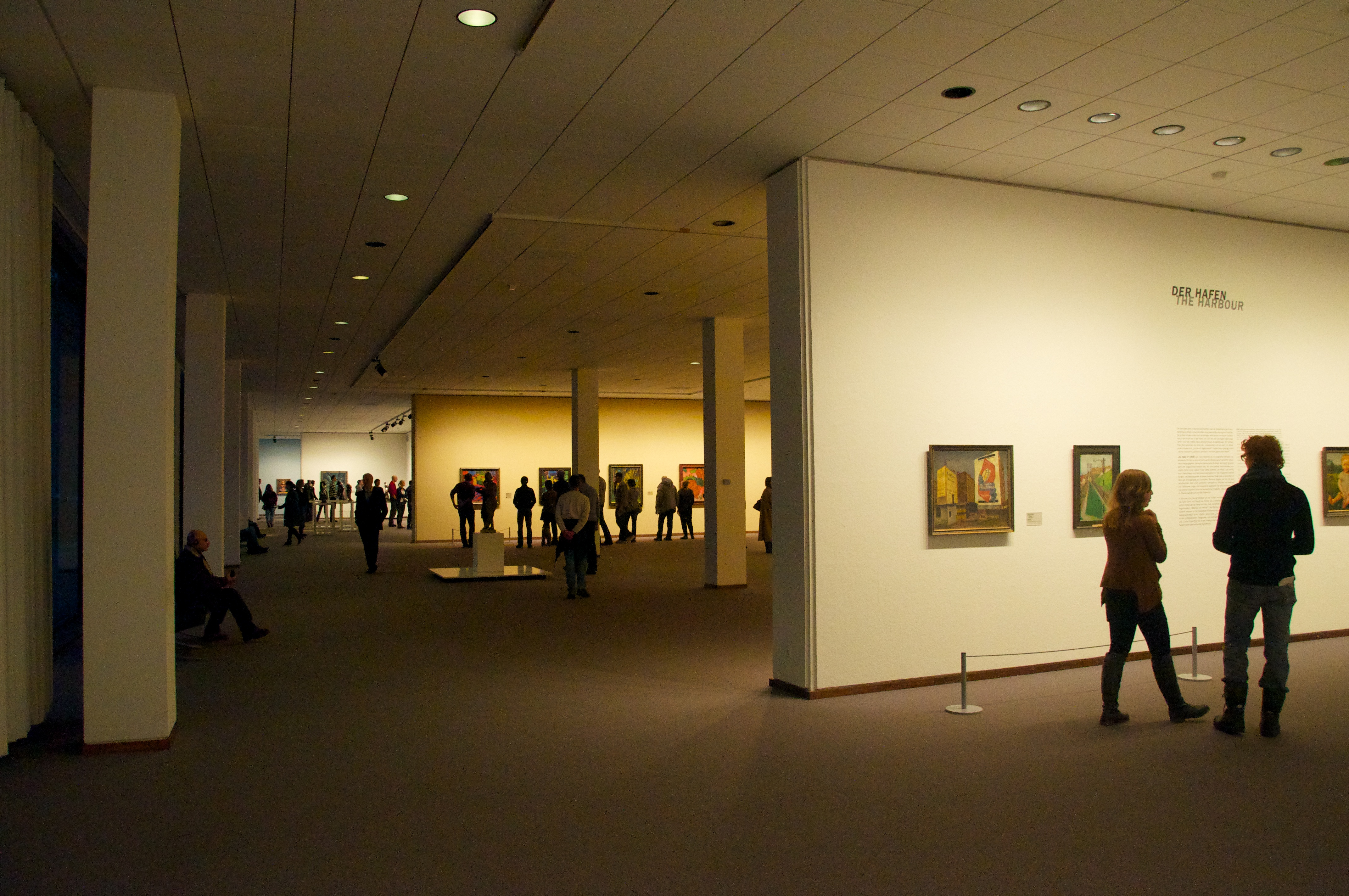 Neue Nationalgalerie Native nameNeue NationalgalerieLocationBerlinCoordinates52° 30′ 24.5″ N, 13° 22′ 04.5″ E Established1968Website